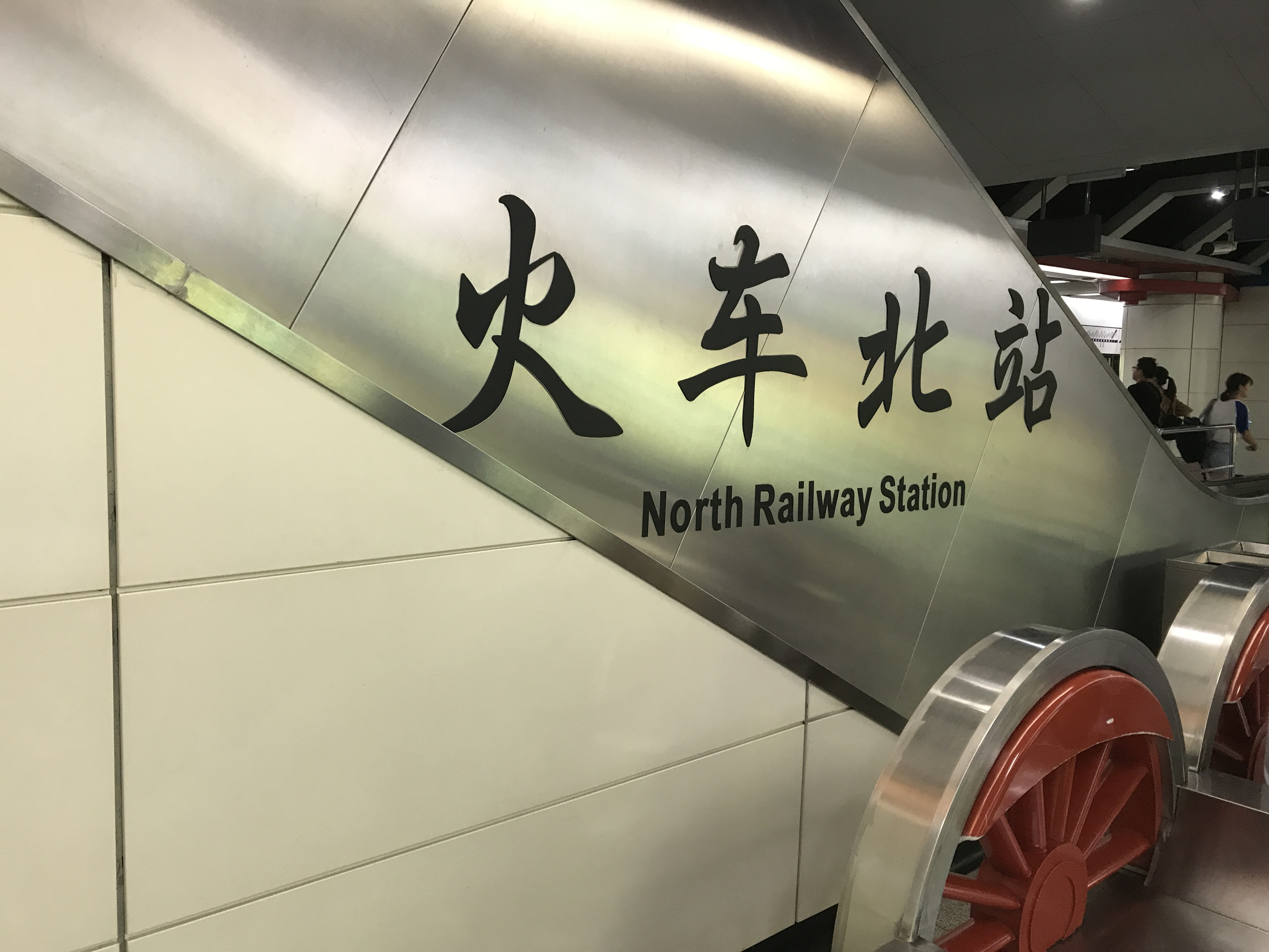 Platform of North Railway Station, Chengdu Metro